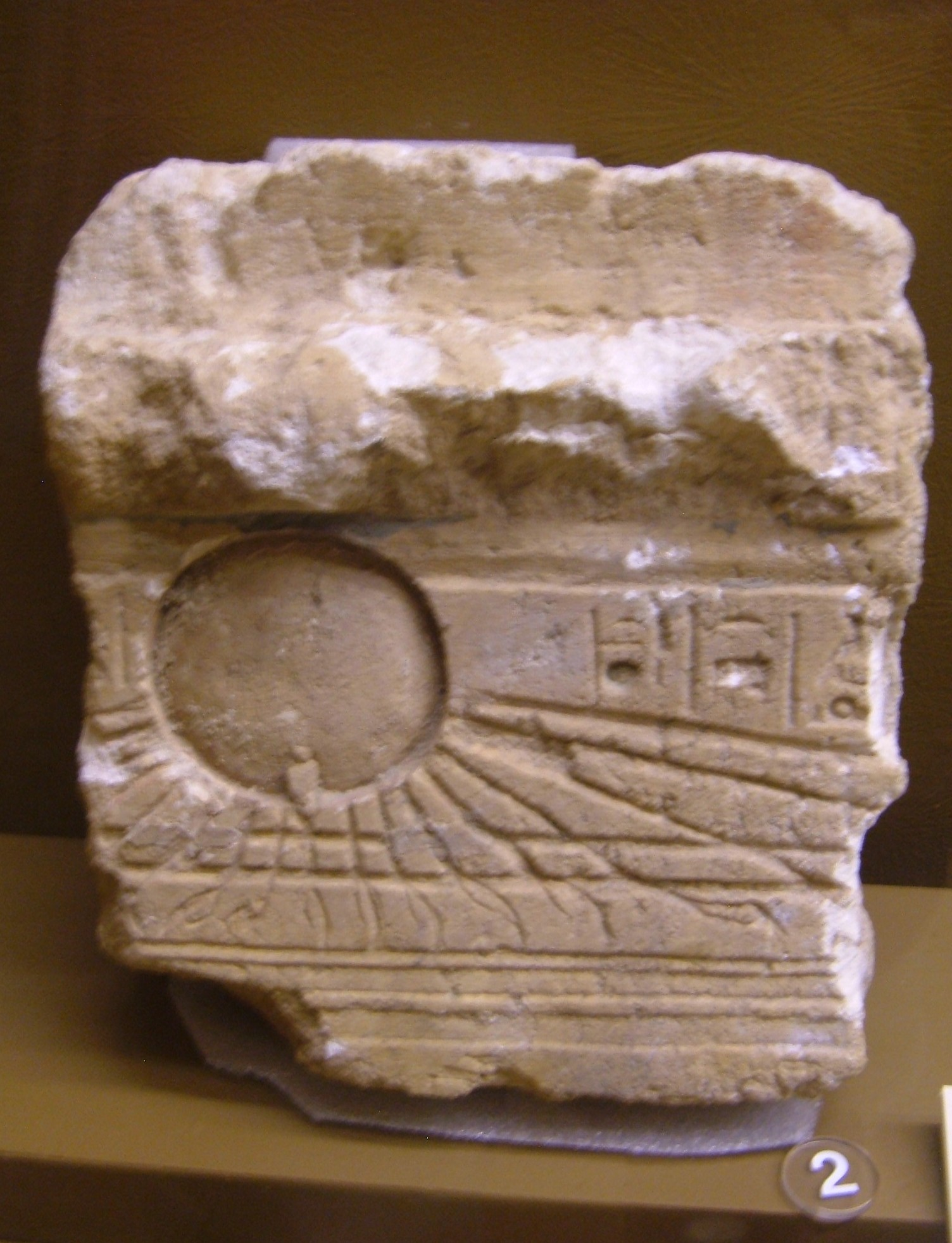 Limestone lintel displaying the Aten from Maru-Aten (Dynasty 18) on display at the Rosicrucian Egyptian Museum in San Jose, California. RC 960